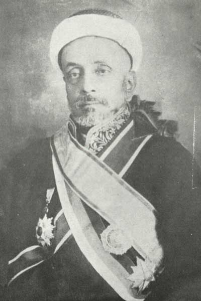 Abdullah Siraj, 8th Prime Minister of Transjordan